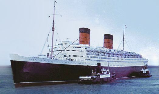 RMS Queen Elizabeth in Cherbourg (Normandy, France) in 1966.